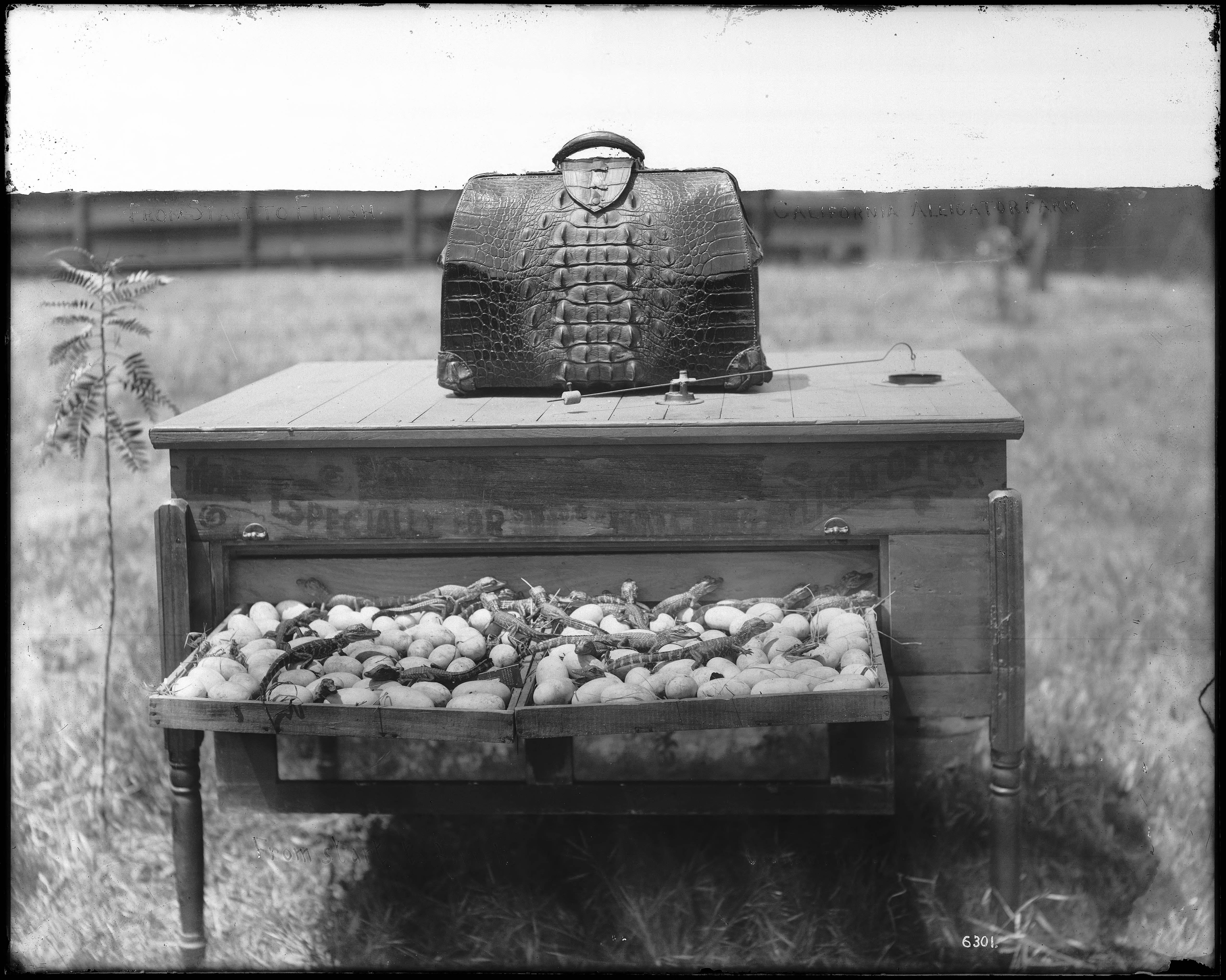 An incubator on an alligator farm (possibly the California Alligator Farm, Los Angeles), ca.1900 Photograph of an incubator on an alligator farm (possibly the California Alligator Farm, Los Angeles), ca.1900. At center is a wooden dresser on which the words are written "Made Especially for [Incubating] Alligator Eggs". A single drawer is out, displaying both eggs and baby alligators. On top of the incubator sits a large alligator-skin bag, capable of holding at least several dozen of the infants. Call number: CHS-6301 Filename: CHS-6301 Coverage date: circa 1900 Part of collection: California Historical Society Collection, 1860-1960 Format: glass plate negatives Type: images Geographic subject (city or populated place): Los Angeles Full text: Repository name: USC Libraries Special Collections Accession number: 6301 Microfiche number: 1-72-3 Archival file: chs_Volume69/CHS-6301.tiff Part of subcollection: Title Insurance and Trust, and C.C. Pierce Photography Collection, 1860-1960 Repository address: Doheny Memorial Library, Los Angeles, CA 90089-0189 Geographic subject (country): USA Format (aacr2): 1 photograph : glass photonegative, b&w ; 21 x 26 cm.; 1 photograph : photoprint, b&w ; 8 x 10 in. Rights: Digitally reproduced by the USC Digital Library; From the California Historical Society Collection at the University of Southern California Subject (adlf): agricultural sites Project: USC Repository Contributing entity: California Historical Society Date created: circa 1900 Publisher (of the digital version): University of Southern California. Libraries Format (aat): photographic prints; photographs Geographic subject (state): California Subject (file heading): Agriculture -- Ranching -- Livestock -- Alligators Legacy record ID: chs-m9557; USC-1-1-1-9696 Access conditions: Send requests to address or e-mail given. Phone (213) 821-2366; fax (213) 740-2343. Geographic subject (county): Los Angeles Subject (lcsh): Alligators; Eggs -- Incubation; Incubation